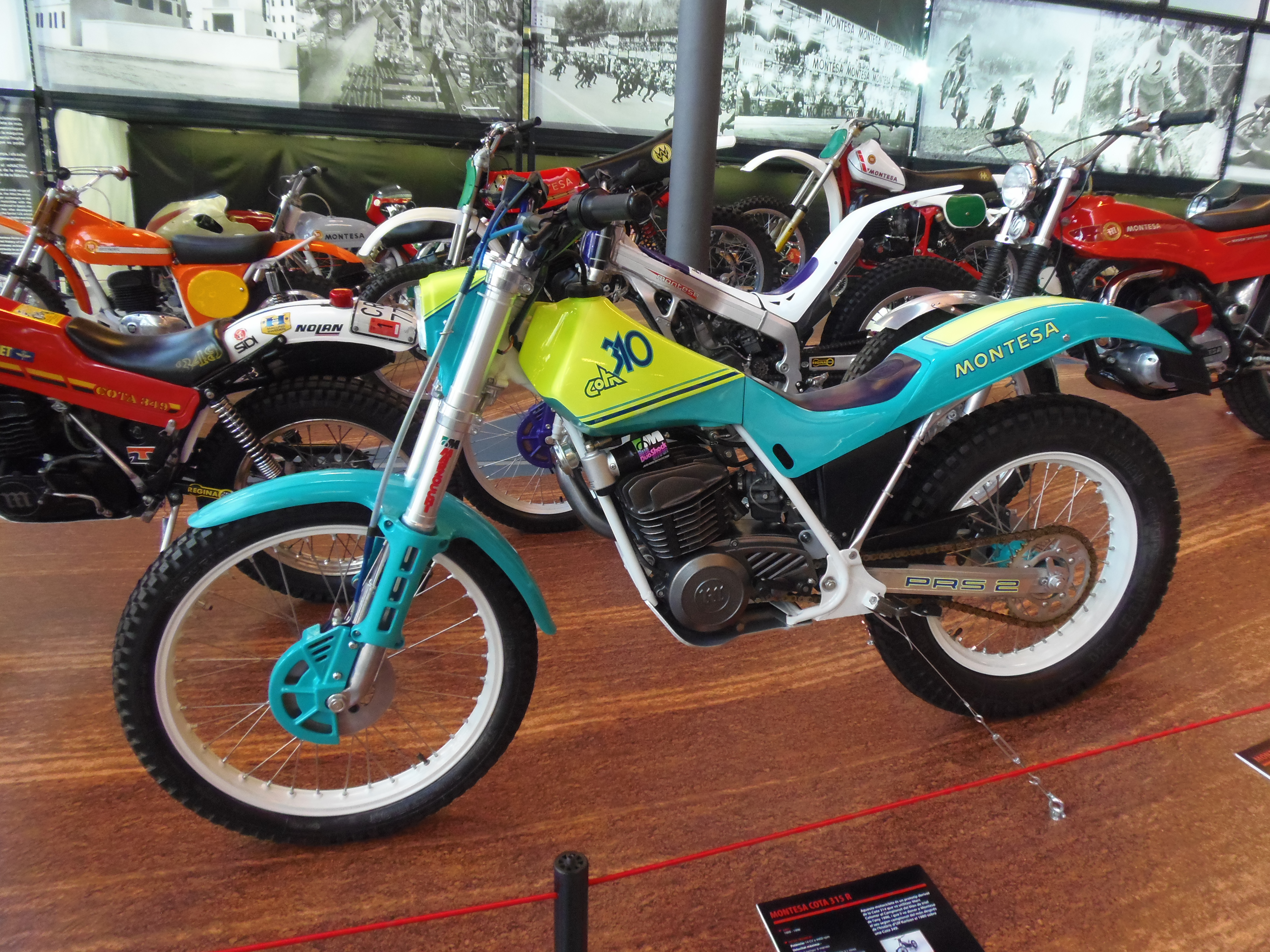 Montesa Cota 310, 1989 or 1990